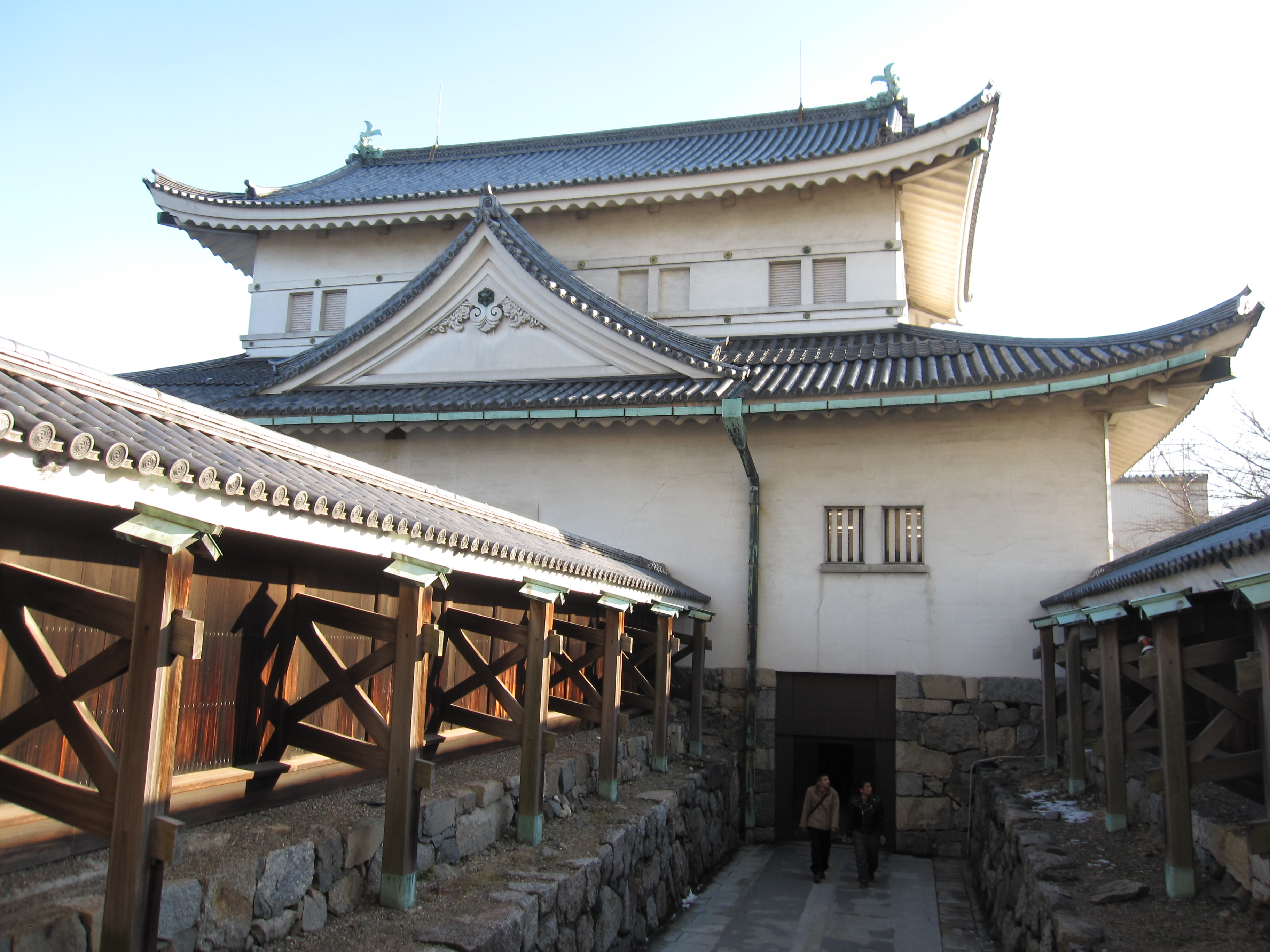 Nagoya Castle